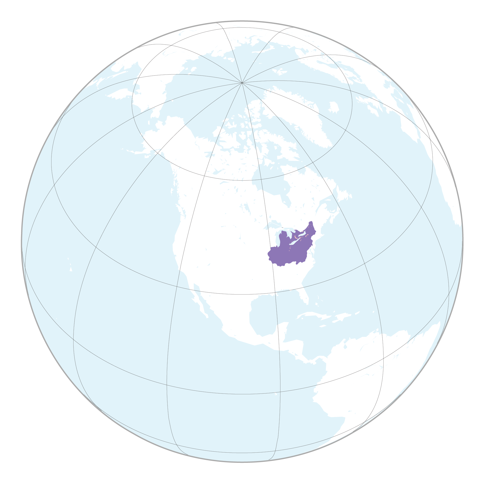 Historical extent and currently recognised borders.